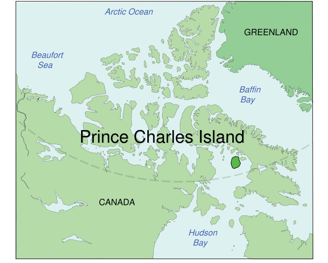 Created based on images from the CIA's World Fact Book.